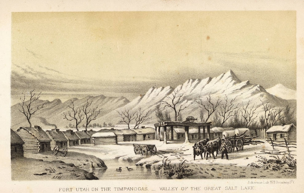 View of Fort Utah (circa 1850) at present day Provo, Utah.